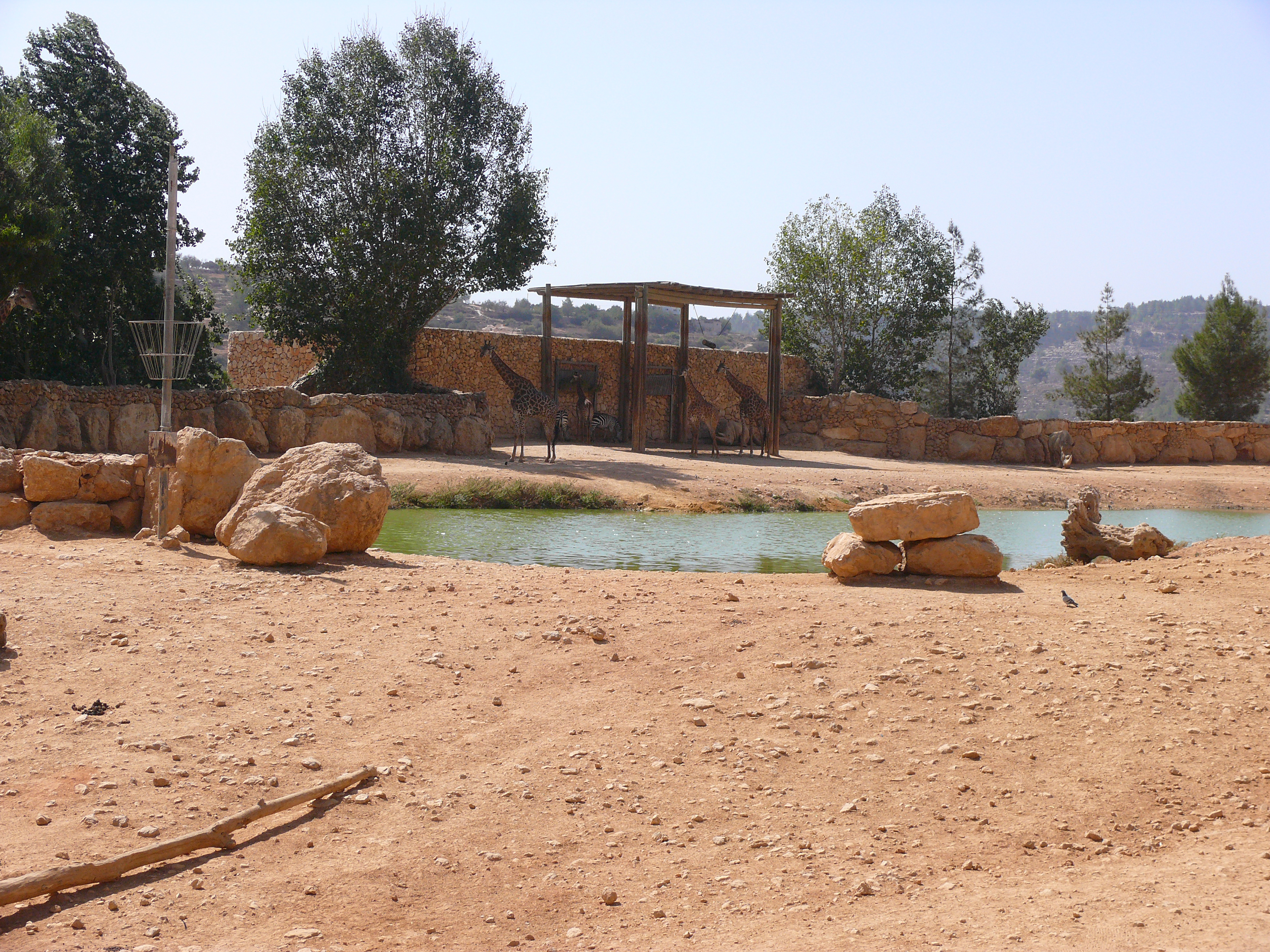 "Land of the Bible" African Savana\Safari in Jerusalem Biblical Zoo